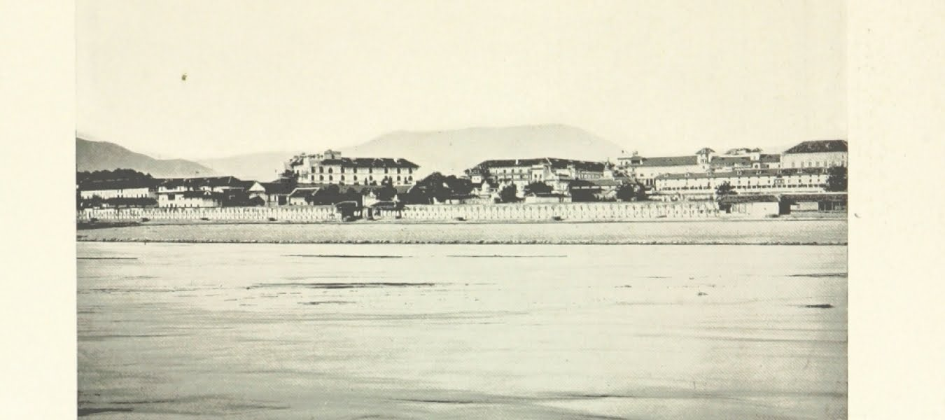 Jung Bahadur Rana's palatial complex, Thapathali